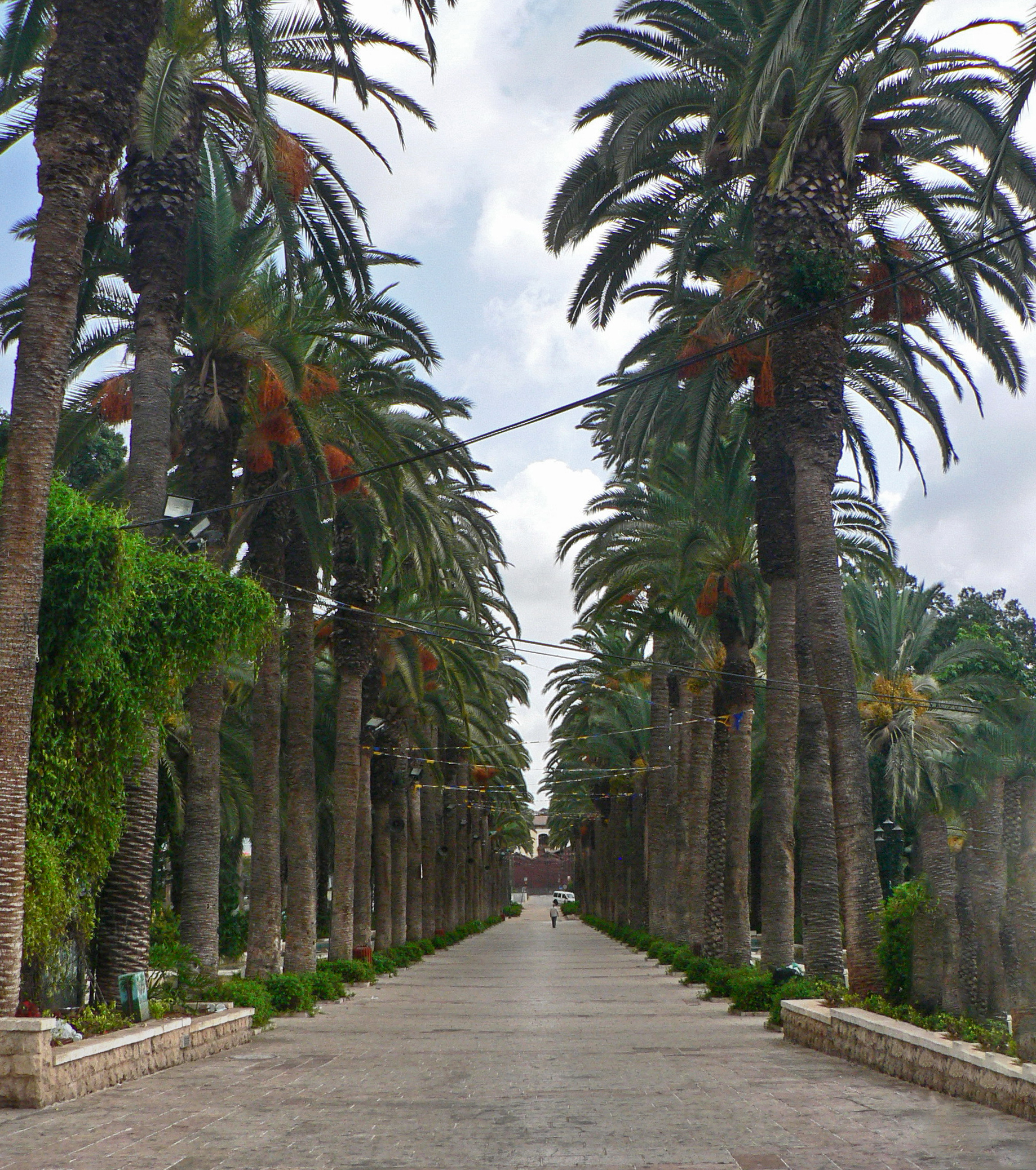 Palm Tree Boulevards in Gan HaMoshava, Rishon LeZion, Israel